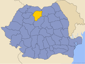 Location of Bistrița-Năsăud County in Romania.